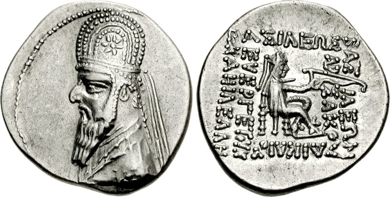 Coin of Gotarzes I.